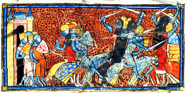 Carloman II of France returning from Vienne, and Carloman II defeating the Normans. (British Library, Royal 16 G VI f. 243v)